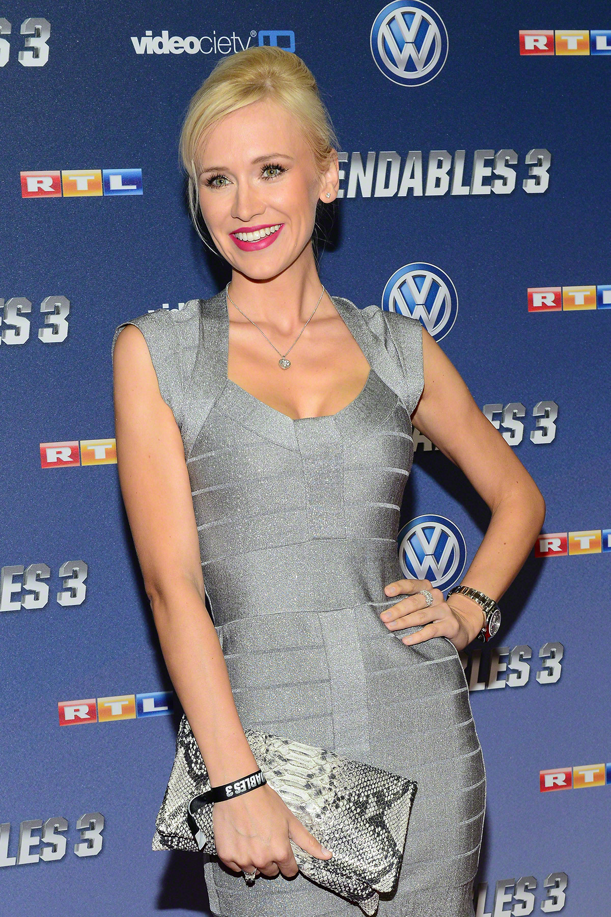 Lisa Loch attend the German premiere of the film "The Expendables 3" at Residenz cinema on August 6, 2014 in Cologne, Germany.